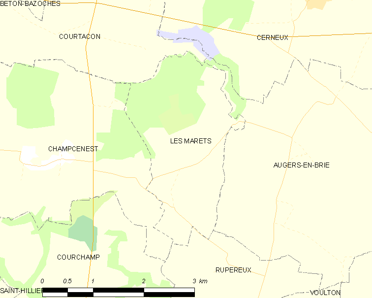 Map of French municipality Les Marêts